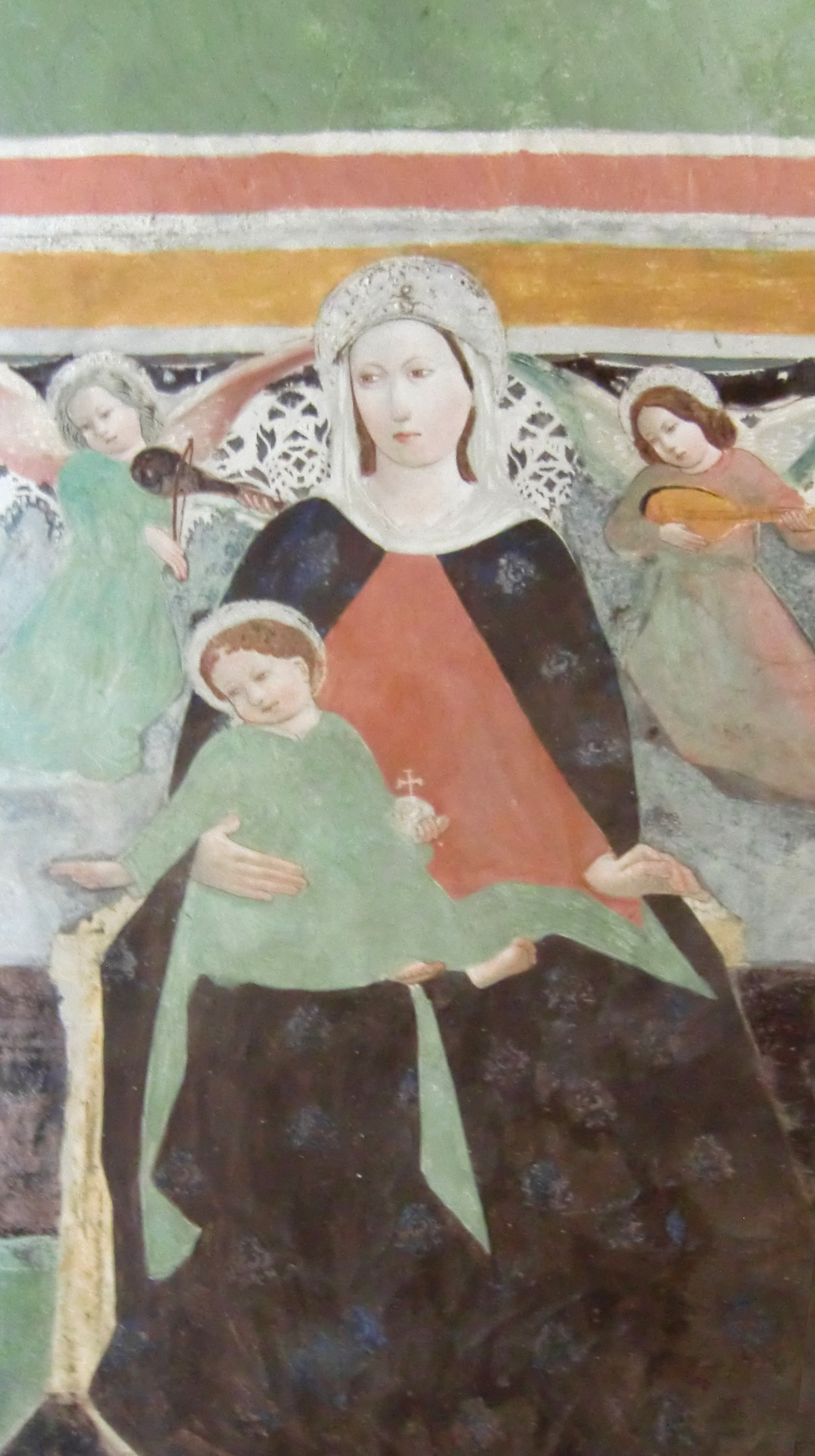 Unknown painter called "Maestro della cappella Avogadro, " Madonna and Child , fresco, ca. 1460-80, Pieve di San Lorenzo; Settimo Vittone, Turin, Italy